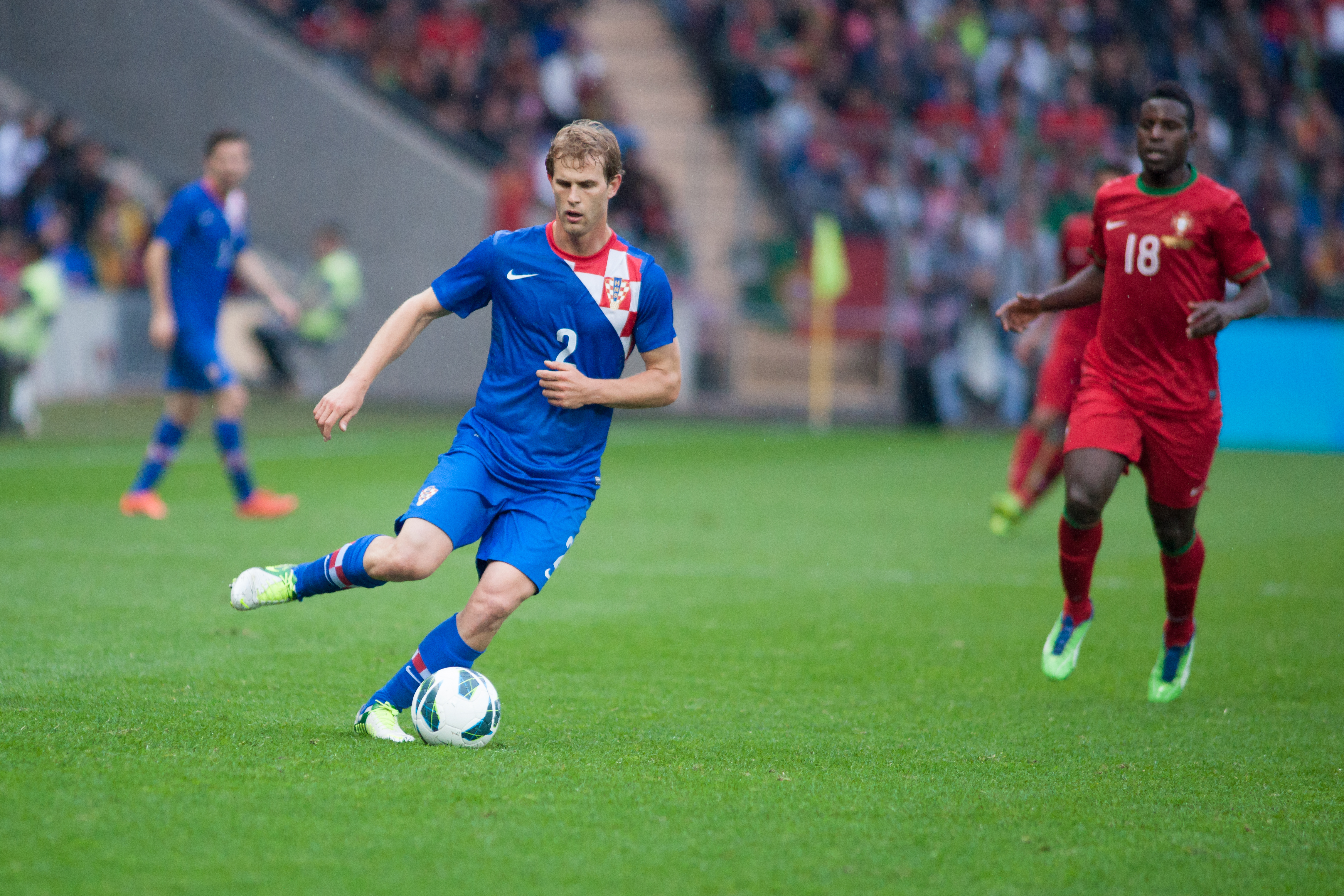 Croatia vs. Portugal, 10th June 2013. Croatian left-back Ivan Strinić in action.